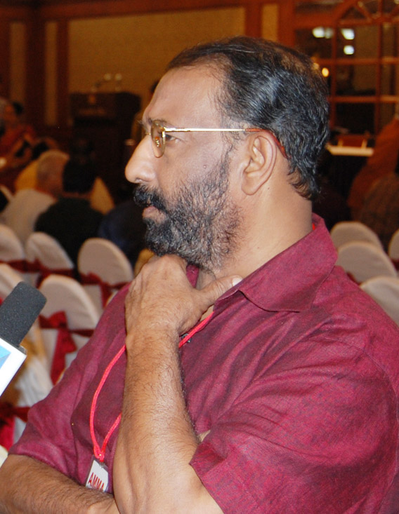 Nedumudi Venu - From AMMA General body meeting 2008